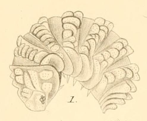 Venezillo tuberosus (Budde-Lund, 1904)